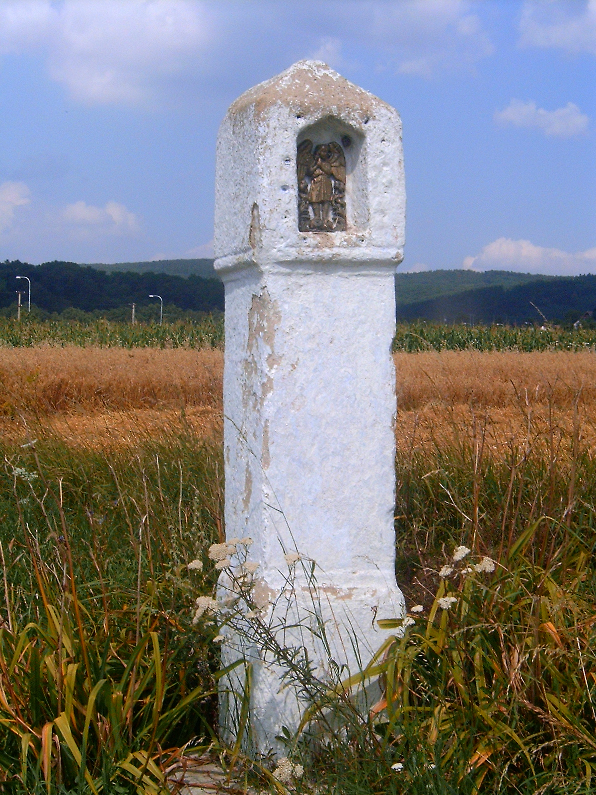 Calvary in Vřesovice, Hodonín district, Czech Republic